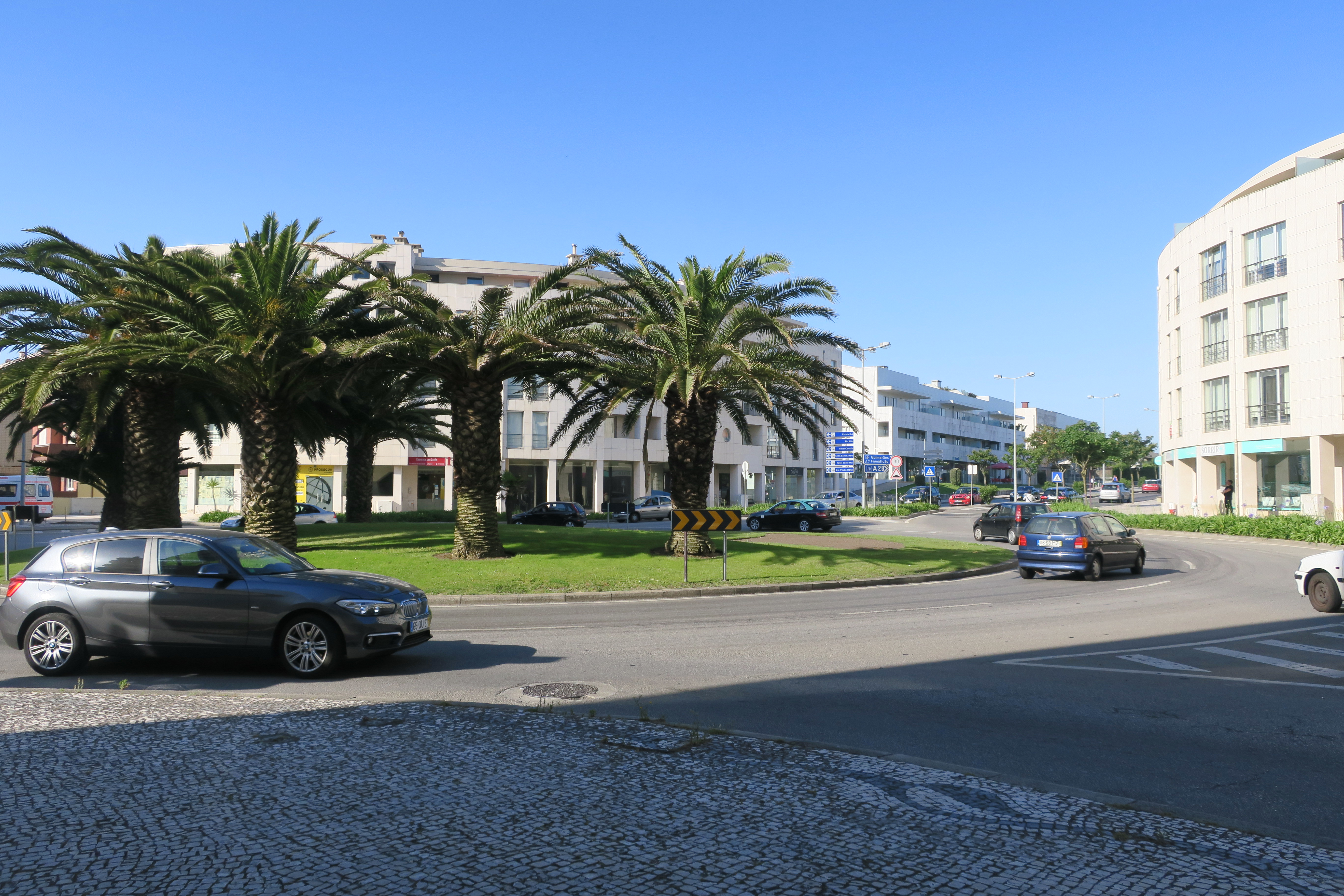 A roundabout in Póvoa de Varzim